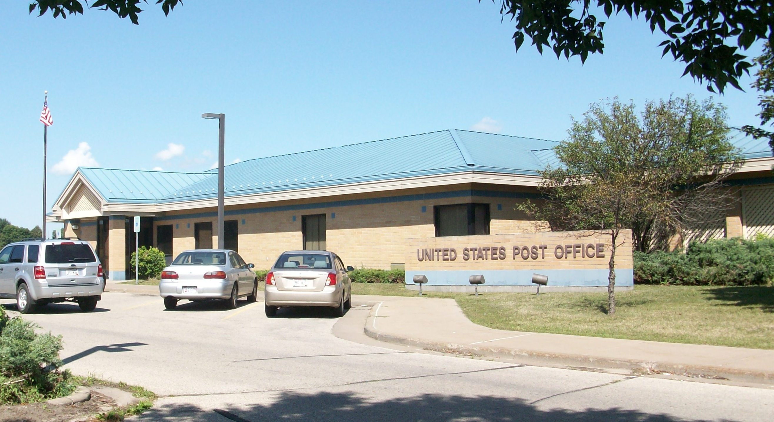 U.S. Post Office at 1000 North Superior Avenue, Tomah, Wisconsin.